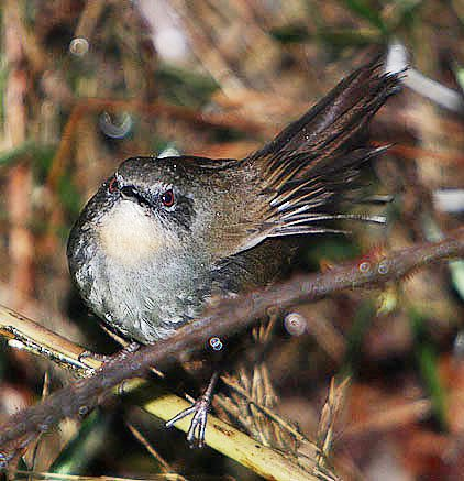 A poor quality flash image of this very range restricted skulking endemic warbler which is confined to the Sri Lankan Highlands. I really struggled to get any images of this wee bird in the cold dawn mists of Horton Plains though at least this image shows the orange wash on the chin/upper chest.. Image taken in swampy brush at the edge of Horton Plains, Sri Lanka on our walk to World's End (sorry -such an incredible name & place that I had to slip this in!).